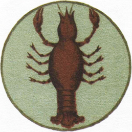 Coat of Arms of Raduń (1792)